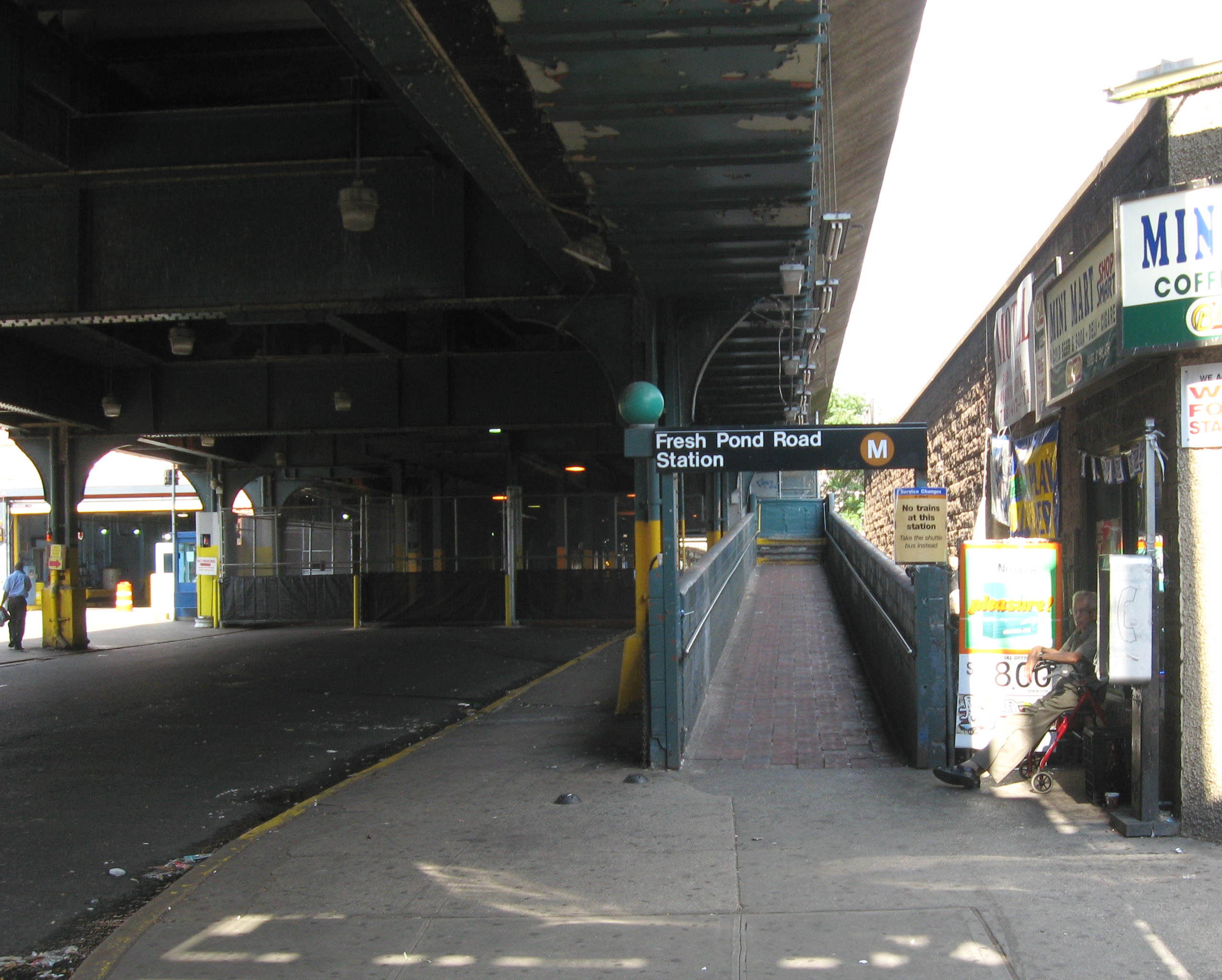 Looking northeast up passenger entry ramp of Fresh Pond Road (BMT Myrtle Avenue Line) in Ridgewood. Fresh Pond bus depot jeh.JPG is to left. ZIP 11385.